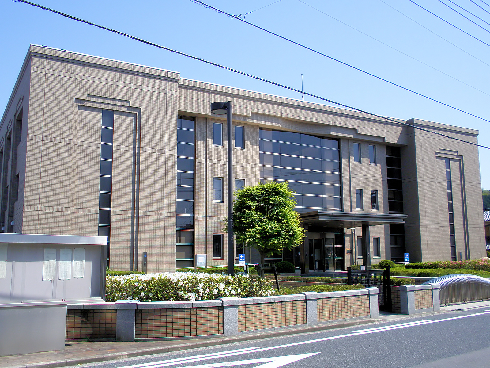 Courthouse in Yonago city. Tottori district court Yonago branch Tottori family court Yonago branch Yonago summary court Yonago committee for the inquest of prosecution